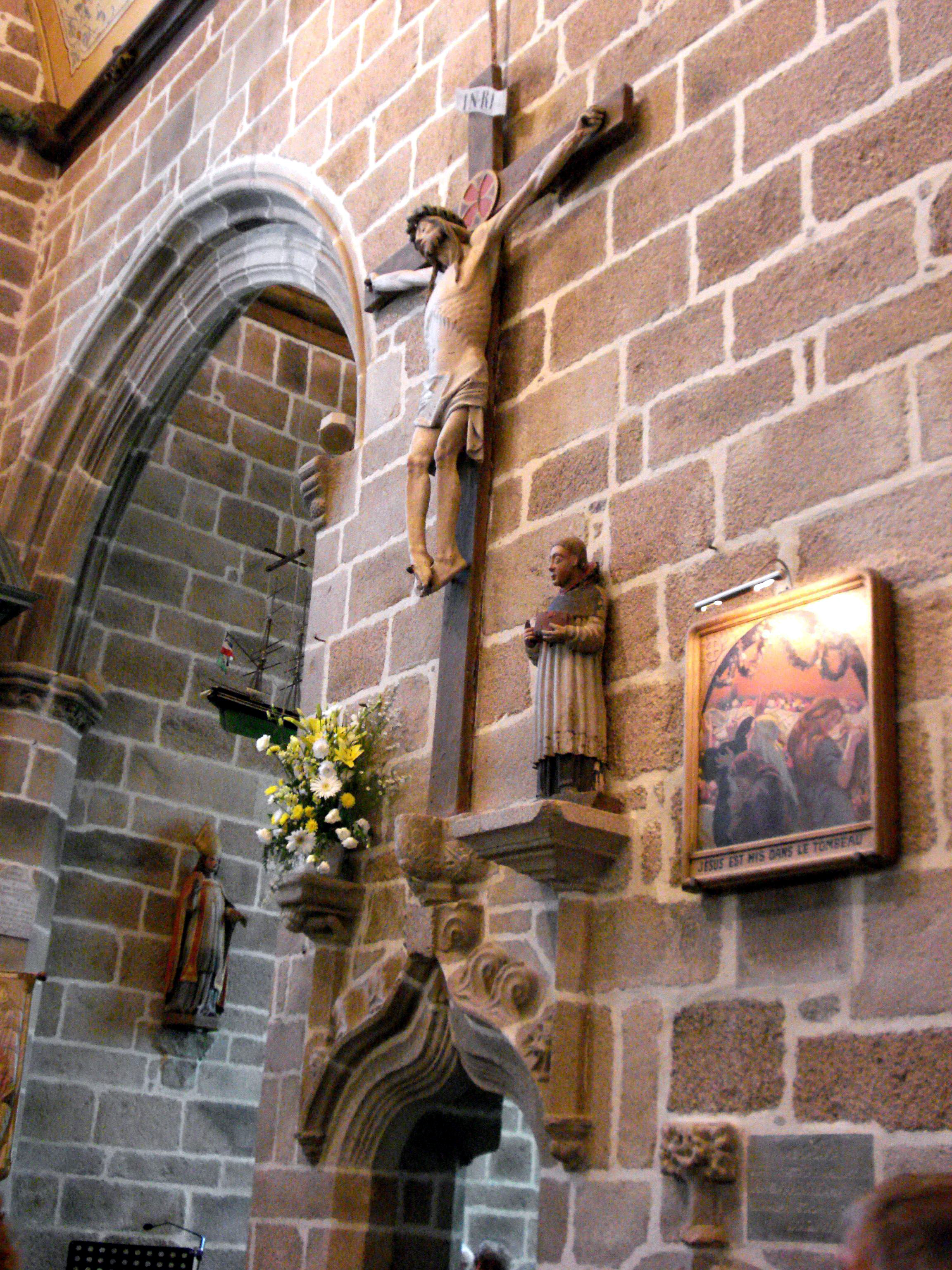 Christ on the cross, statue of St. Yves and one of the Stations of Maurice Denis Via Crucis.